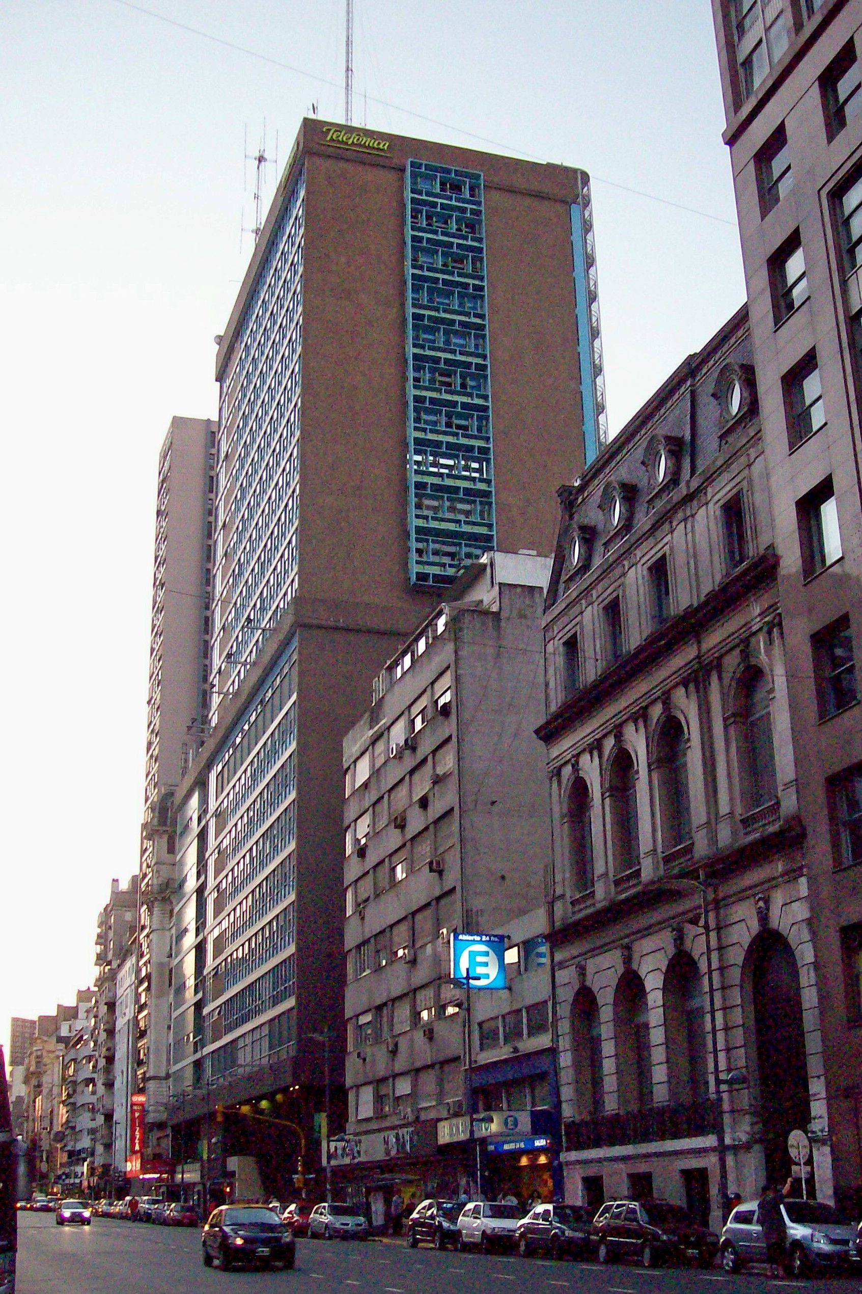 Edificio República, a modernist building designed by SEPRA Architects and completed in 1964. Located on Corrientes Avenue, Buenos Aires, it was built for the state telecom firm ENTEL and today houses offices for Telefónica Argentina.